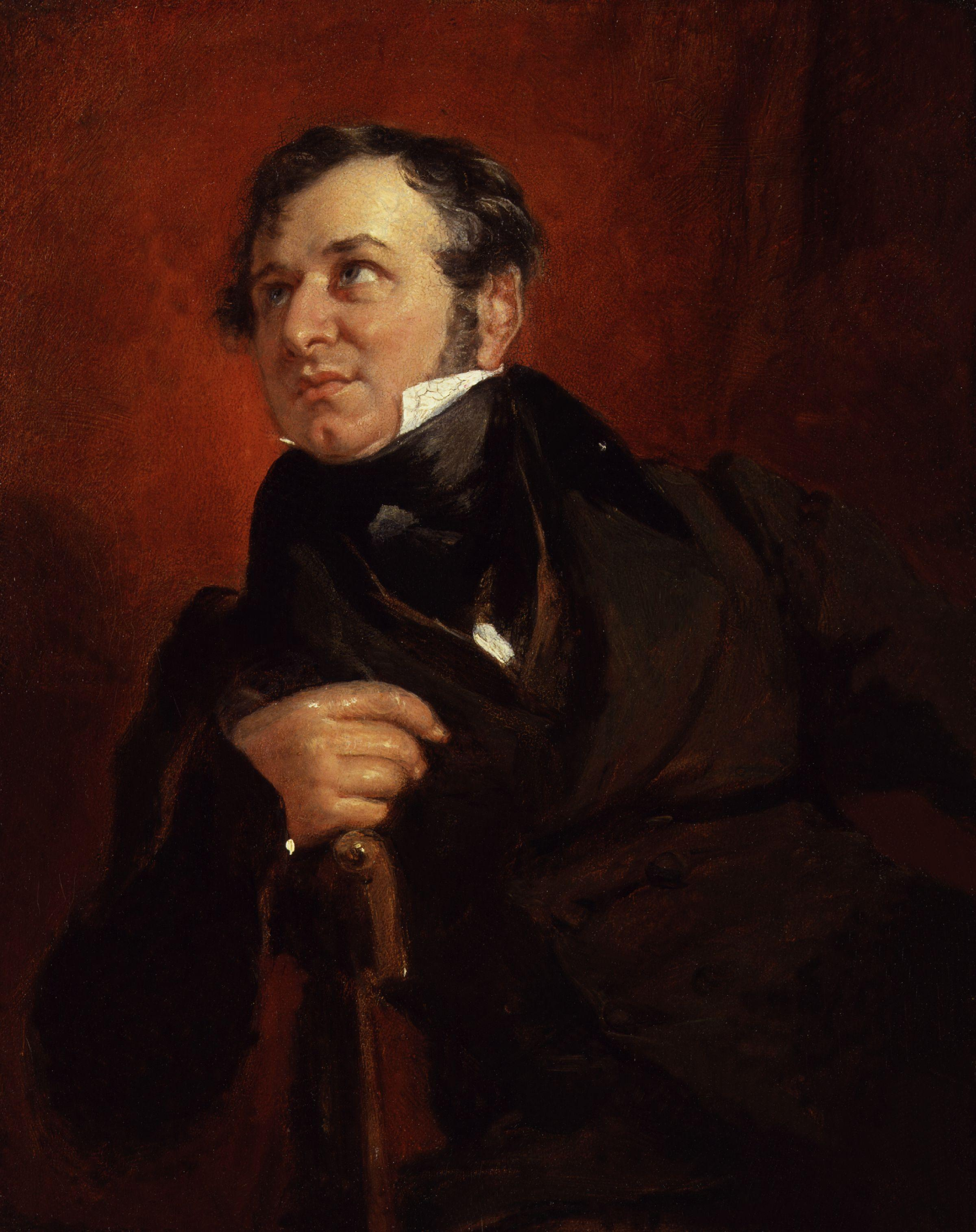 John James Chalon, by John Partridge (died 1872). All images in this batch have been confirmed as author died before 1939 according to the official death date listed by the NPG.